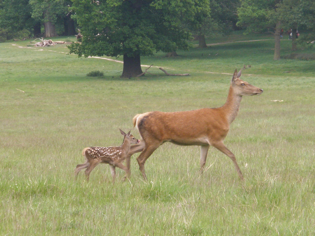 Western European red deer (Cervus elaphus elaphus) fawn in Richmond Park, England.